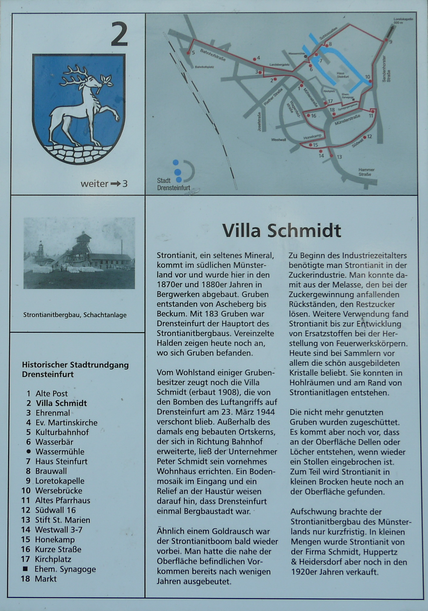 Villa Schmidt City Drensteinfurt information Shield